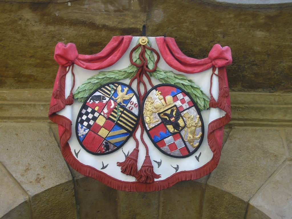 Coat of arms, east facade of the Książ Castle, Lower Silesian Voivodeship, Poland.